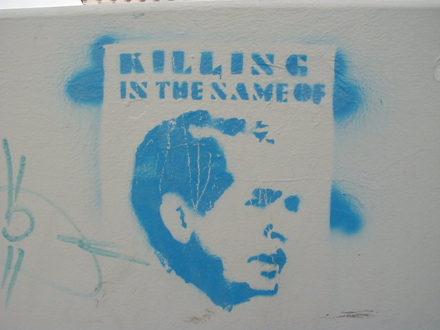 This critical stencil (de, fr: Pochoir) shows the face of G.W. Bush and says "Killing in the name of" - such as the song of the band "Rage against the machine"